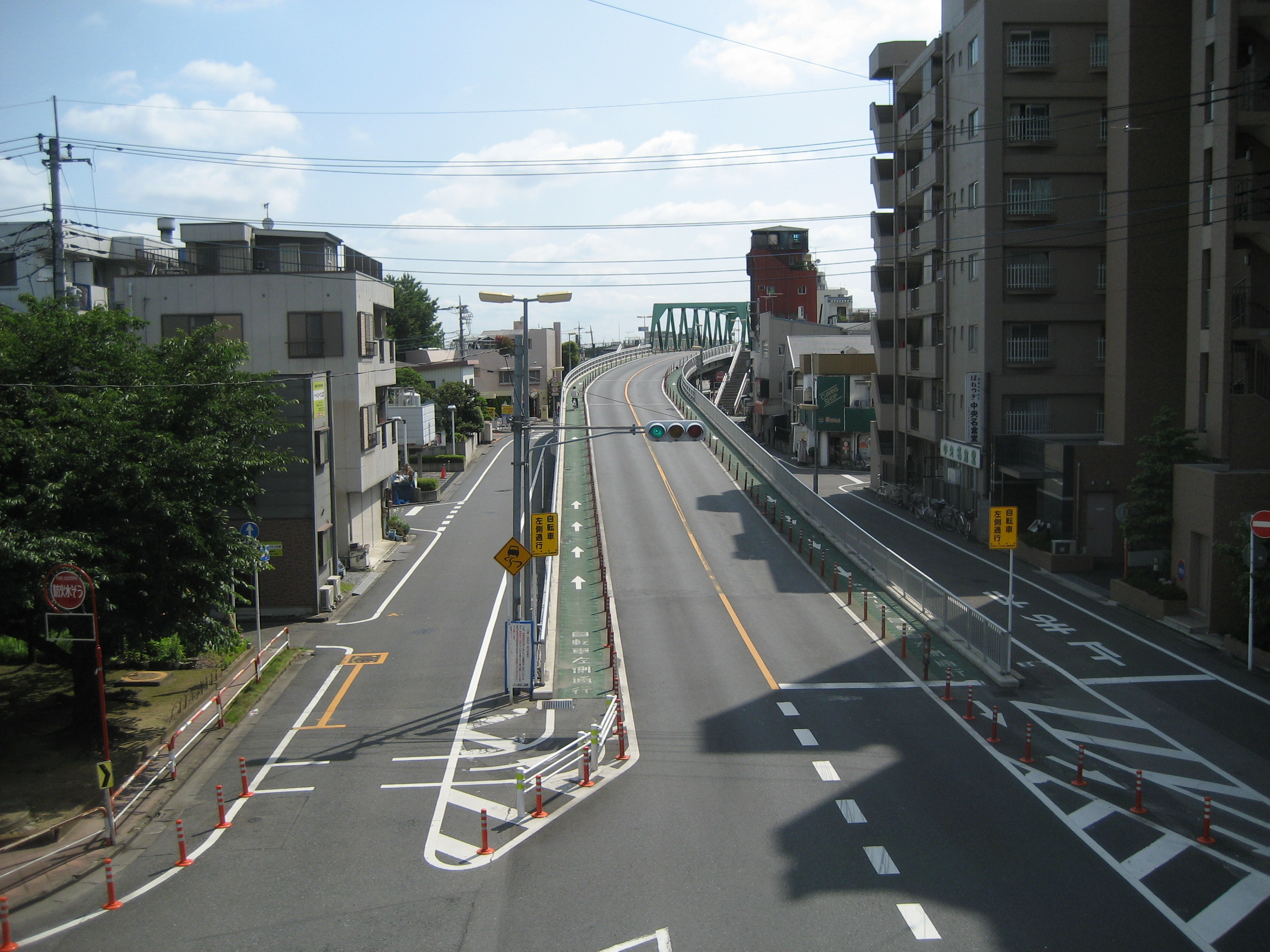 The Saitama Prefectural Road Route 111 near the Warabi-rikkyo-nishi Intersection